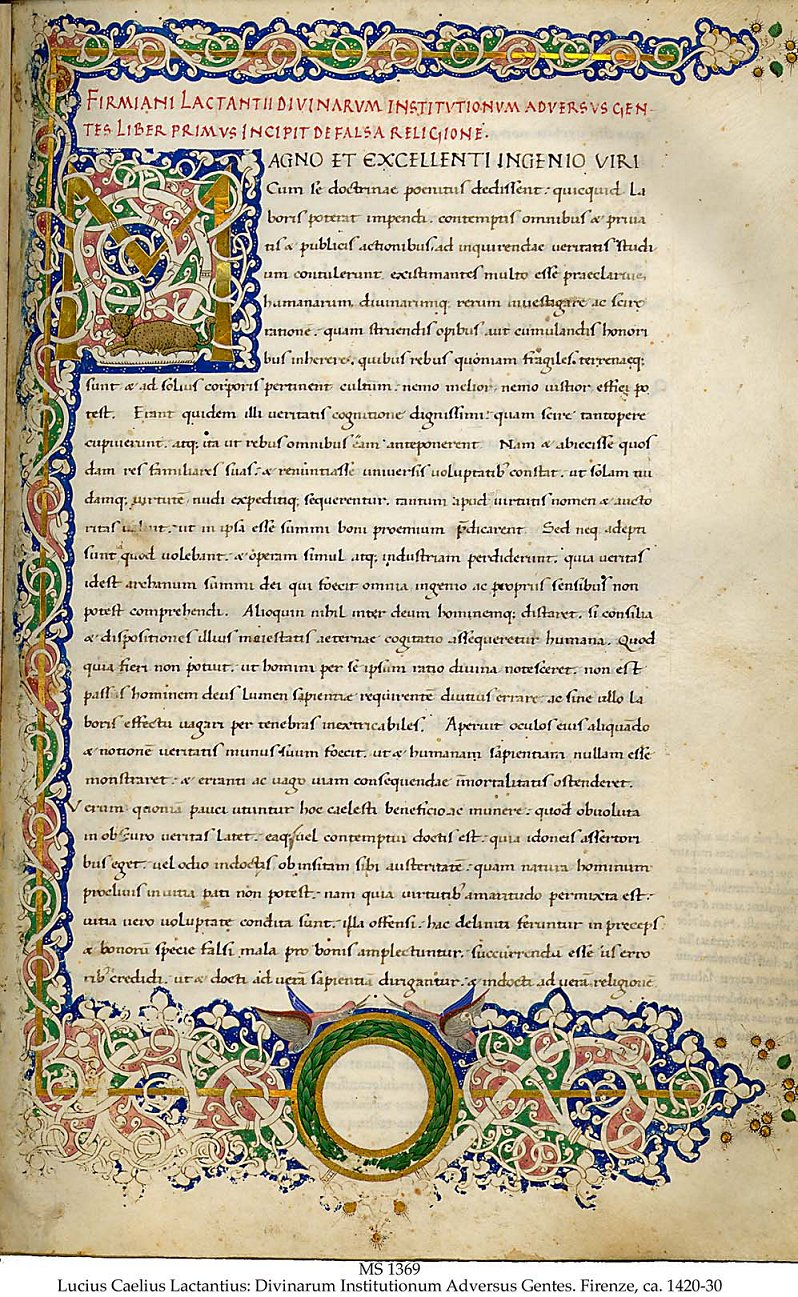 Beginning of the first book of Lactantius’ Divinae institutiones (“Divine Institutions”) in a Renaissance manuscript written in Florence ca. 1420–1430 by Guglielmino Tanaglia, possibly Niccolo Niccoli and a third, unknown scribe. Page size 32 × 23 cm. This so-called Tanaglia Lactantius is MS 1369 of the Schøyen Collection.